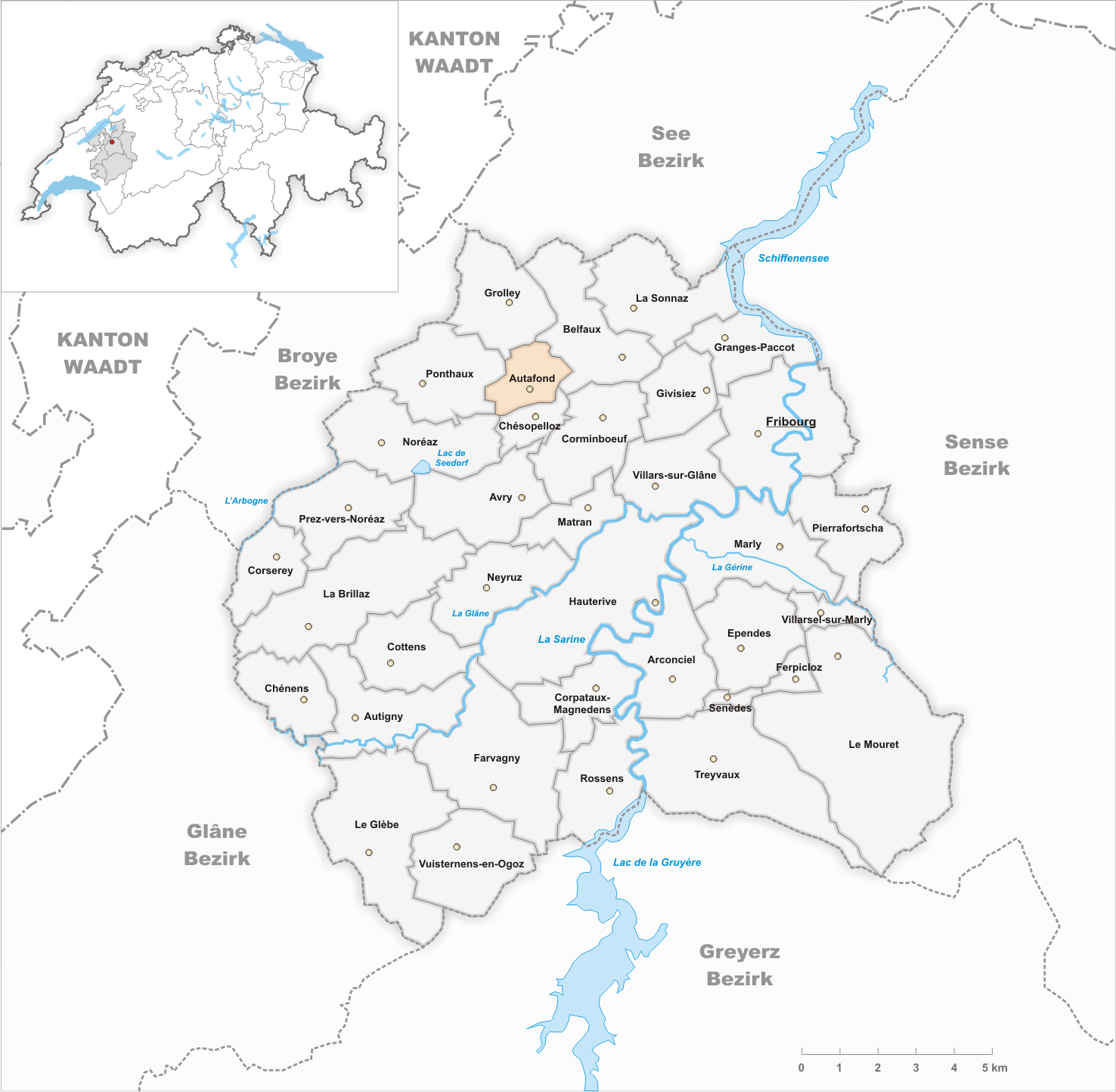 Municipality Autafond